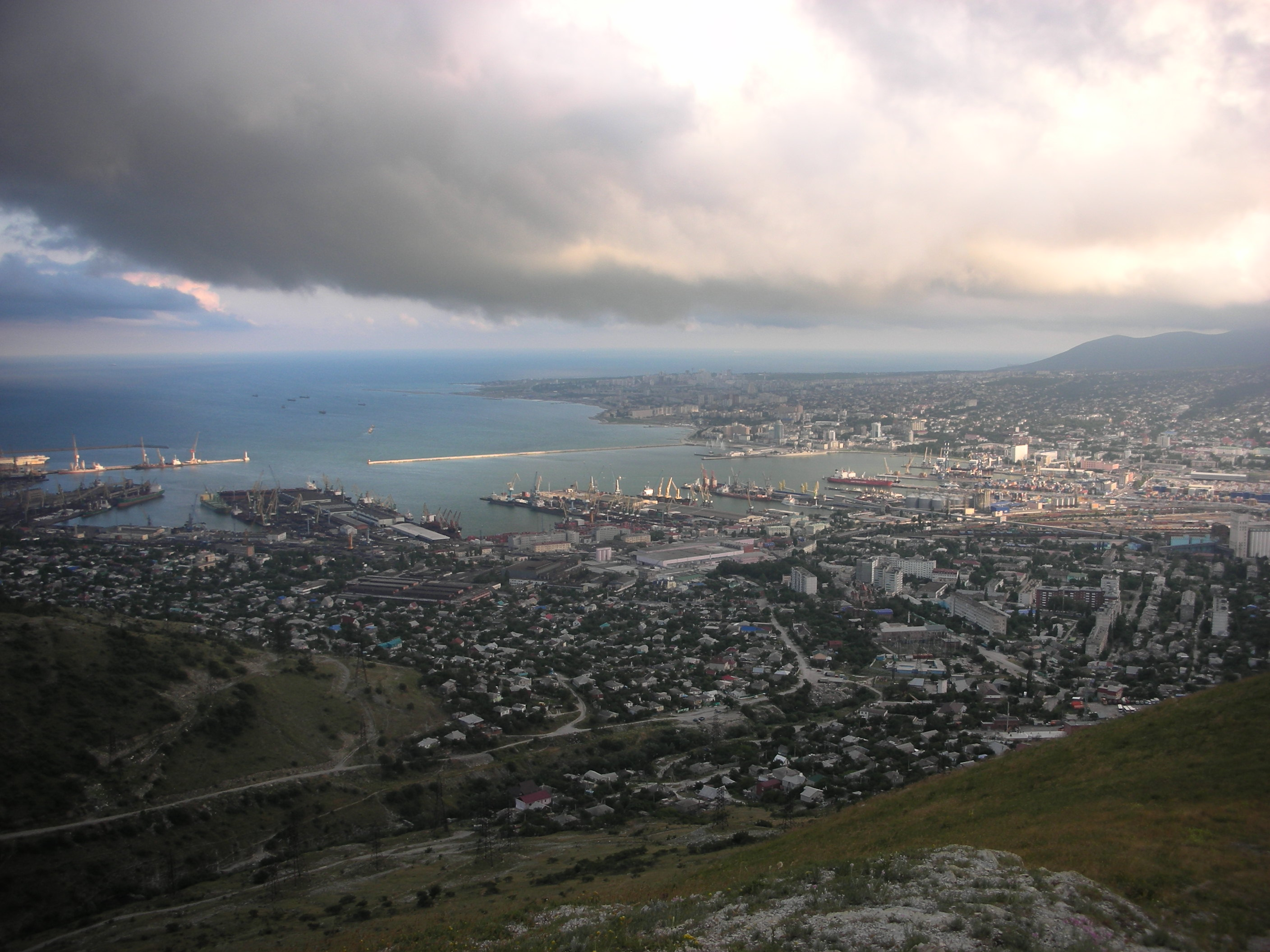 Novorossiysk Perspective